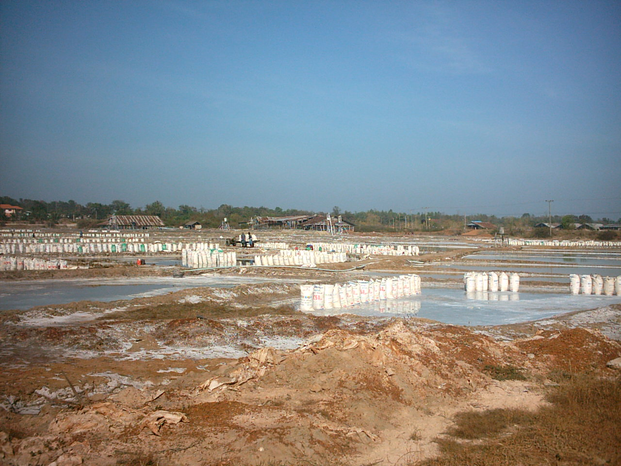 Bags of Salt produced by Brine Evaporation around Ban Dung, Udon Thani Province, norteastern Thailand